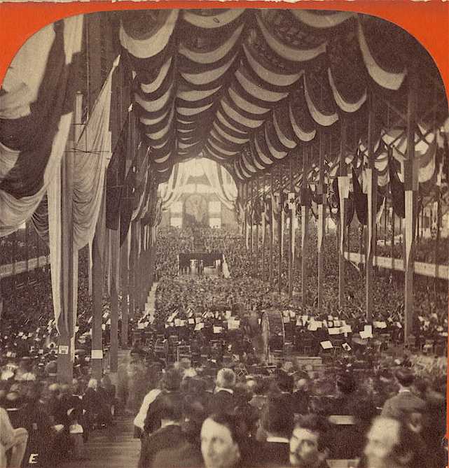 Accession No.: 06_11_000179 Title: Great Peace Jubilee Boston, June, 1869 Series: Coliseum Interior Creator: Soule, John P. Local Subject: Events Public Buildings Subject: Boston (Mass.) National Peace Jubilee and Musical Festival (1869 : Boston, Mass.) Pub. Date: c1869 Date of Creation: 1869 Format: Derived from stereograph BPL Department: Print